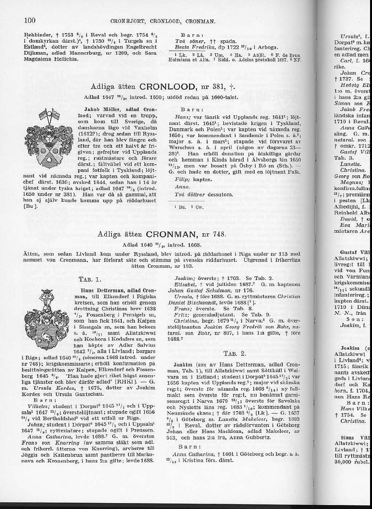 Hans Detterman Cronman descendants with text by Gabriel Anrep (1821-1907) and edited in a new edition by Gustaf Magnus Elgenstierna (1871-1948). This is page 100.